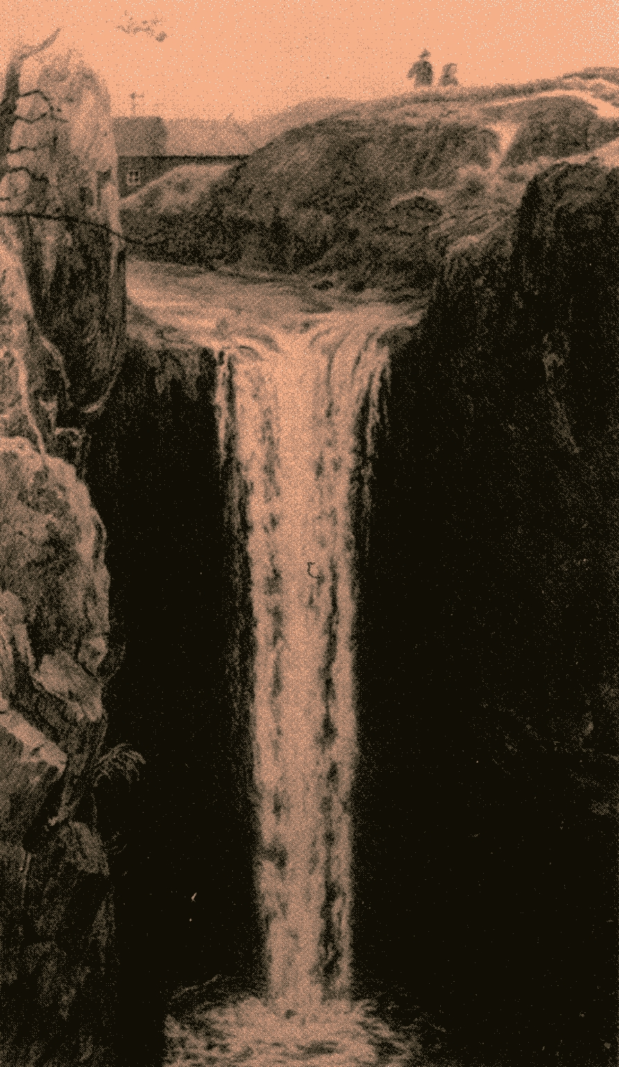 Polhems lock at Trollhättan in Sweden. Illustration from ca. 1850